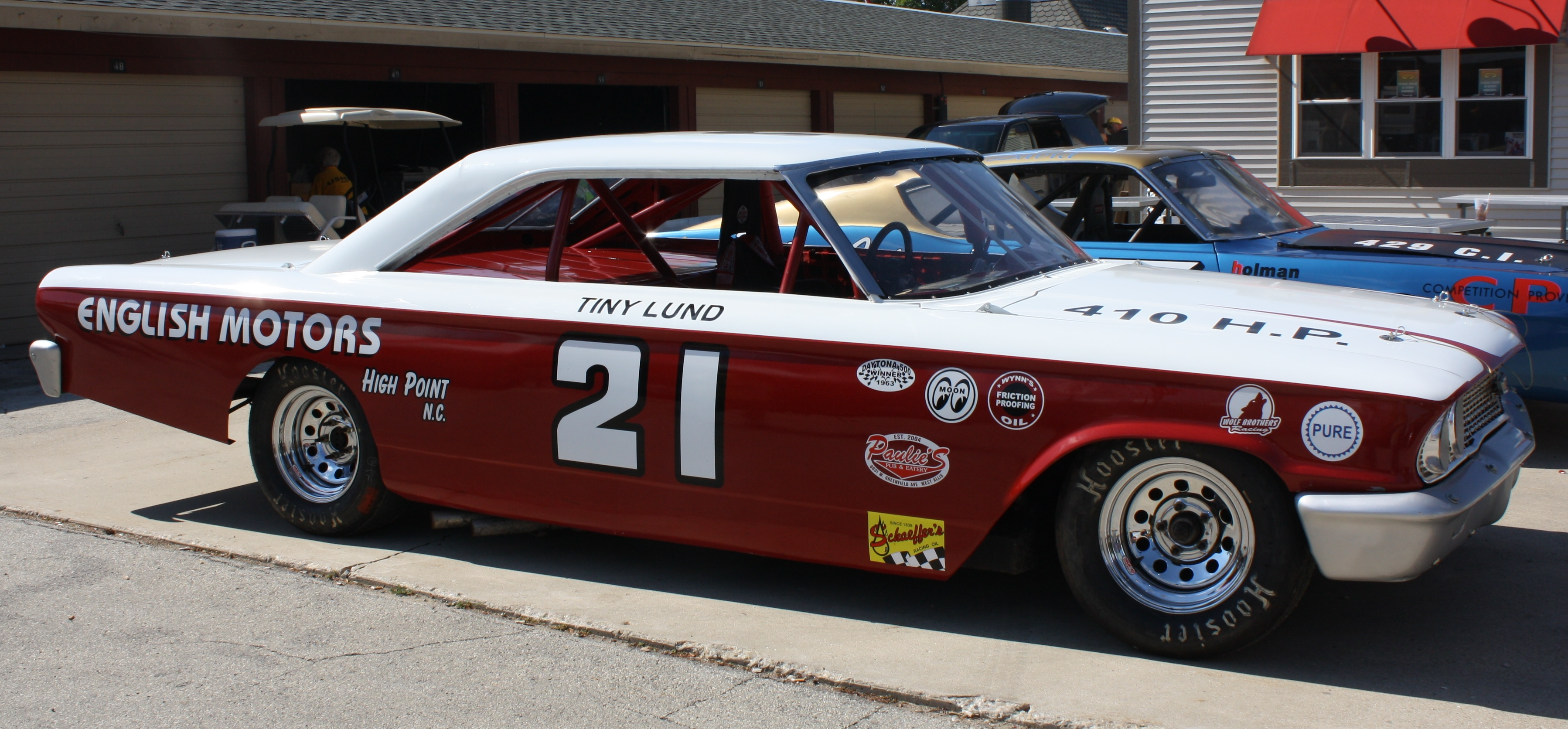 A replica of the original Wood Brothers #21 NASCAR racecar driven by Tiny Lund in 1963. Differences in the replica include the lack of side exhaust and an open rear wheel well. Lund won the 1963 Daytona 500.